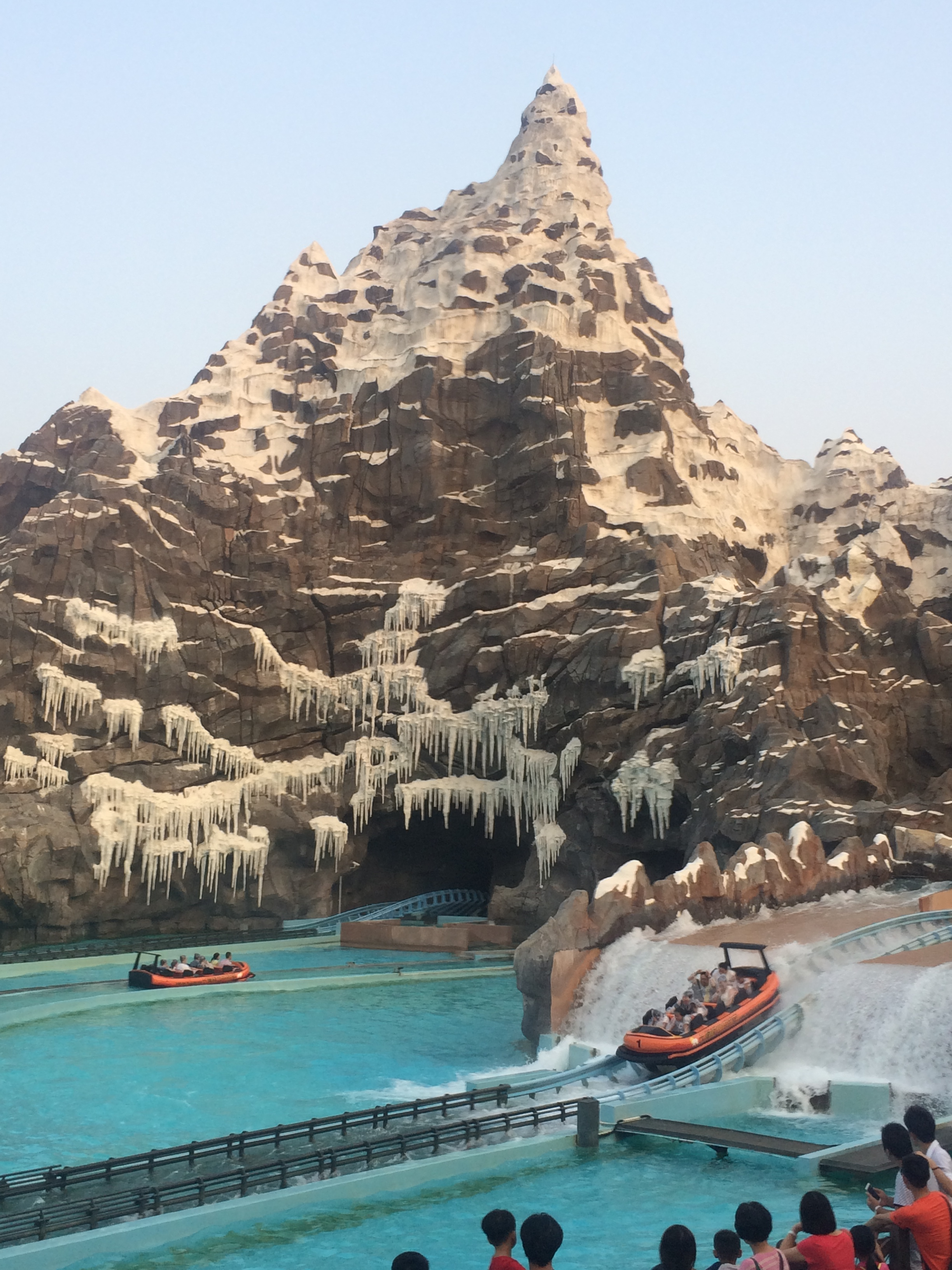 Polar Explorer in Chimelong Ocean Kingdom